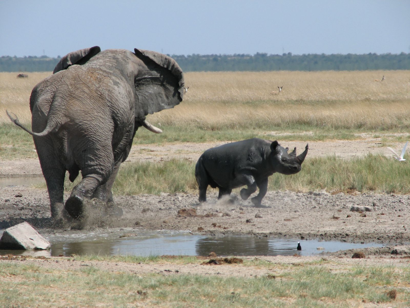 Even a rhino has to give way to an elephant. This rhino had come to the waterhole from upwind. I don't think he noticed the elephant until it charged him.